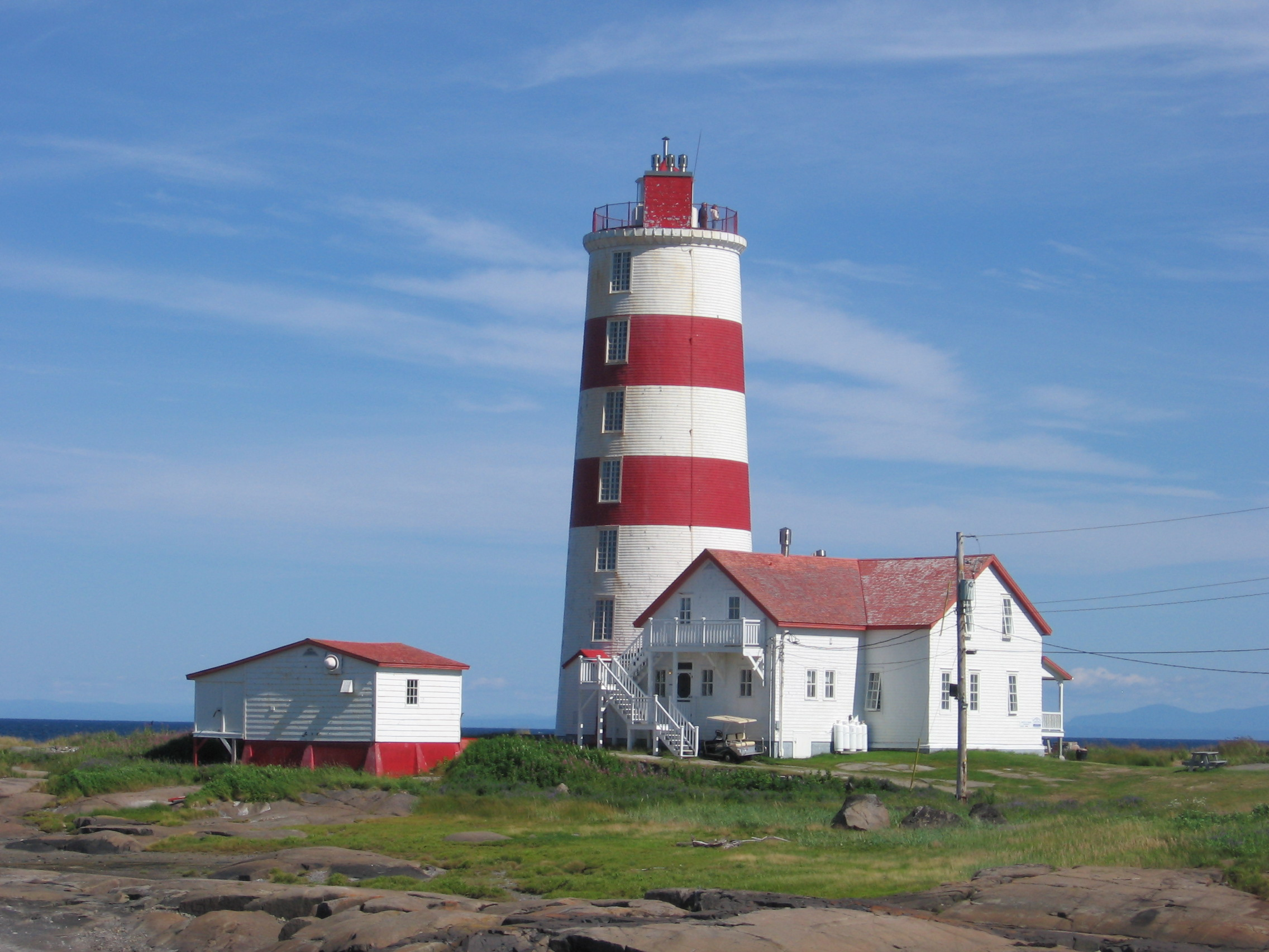 Pointe des Monts Lighthouse